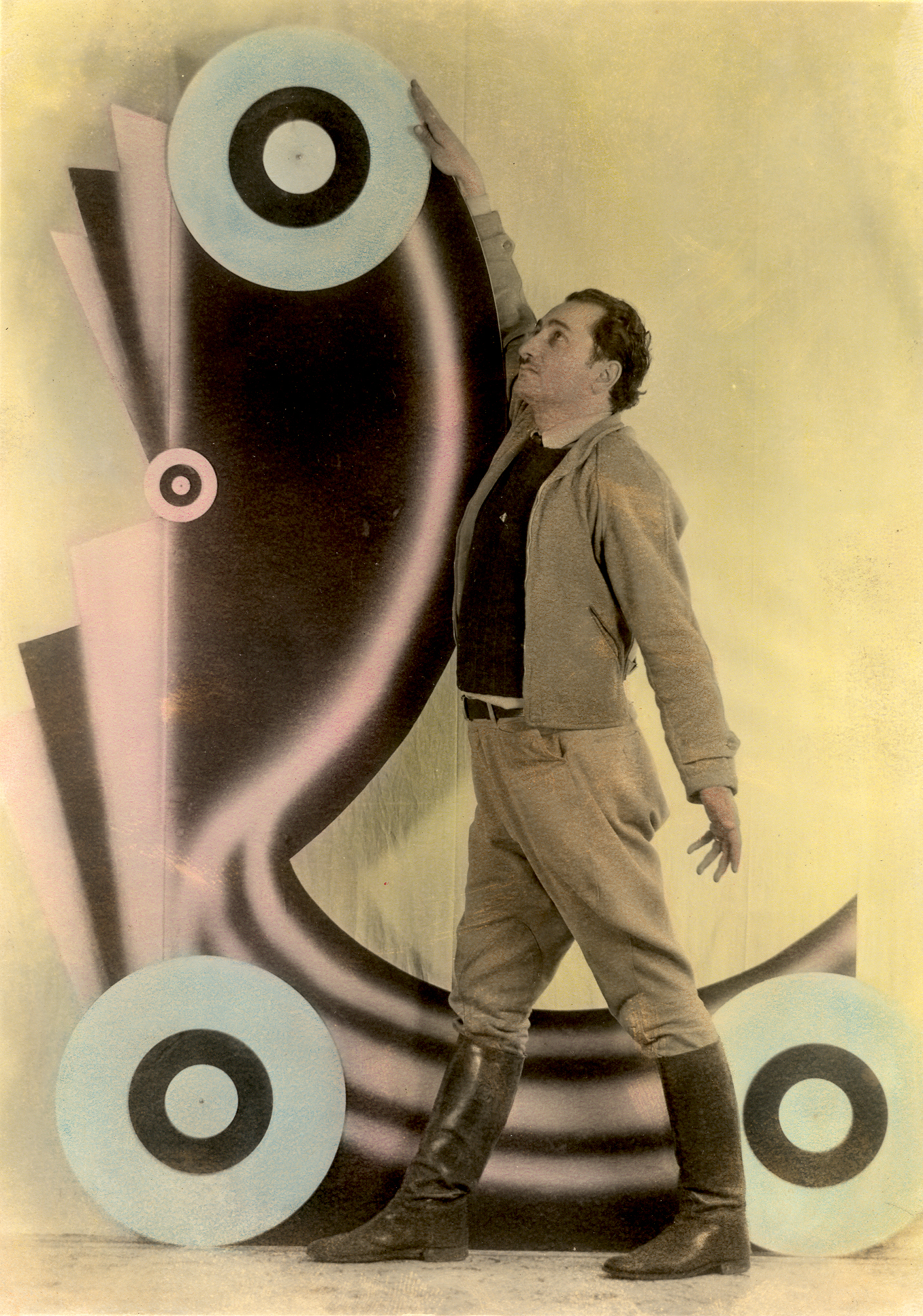 DeGrazia circa 1930's